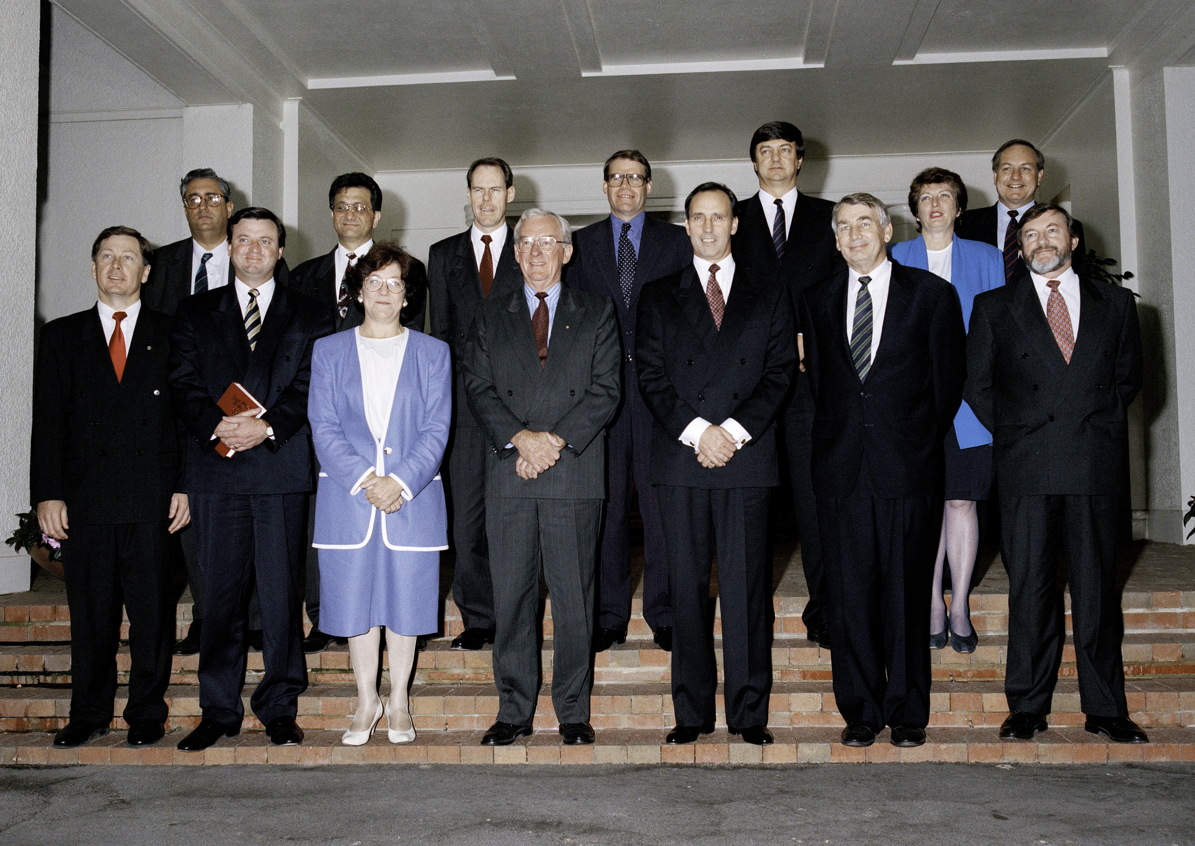 Newly sworn-in members of the second Keating Cabinet outisde Government House, Canberra, 25 March 1994. Back row: Robert Ray, Con Sciacca, Gary Johns, John Faulkner, Chris Schacht, Mary Crawford, Peter Baldwin. Front row: Arch Bevis, Gary Punch, Carmen Lawrence, Governor-General Bill Hayden, Prime Minister Paul Keating, Brian Howe, Peter Cook.